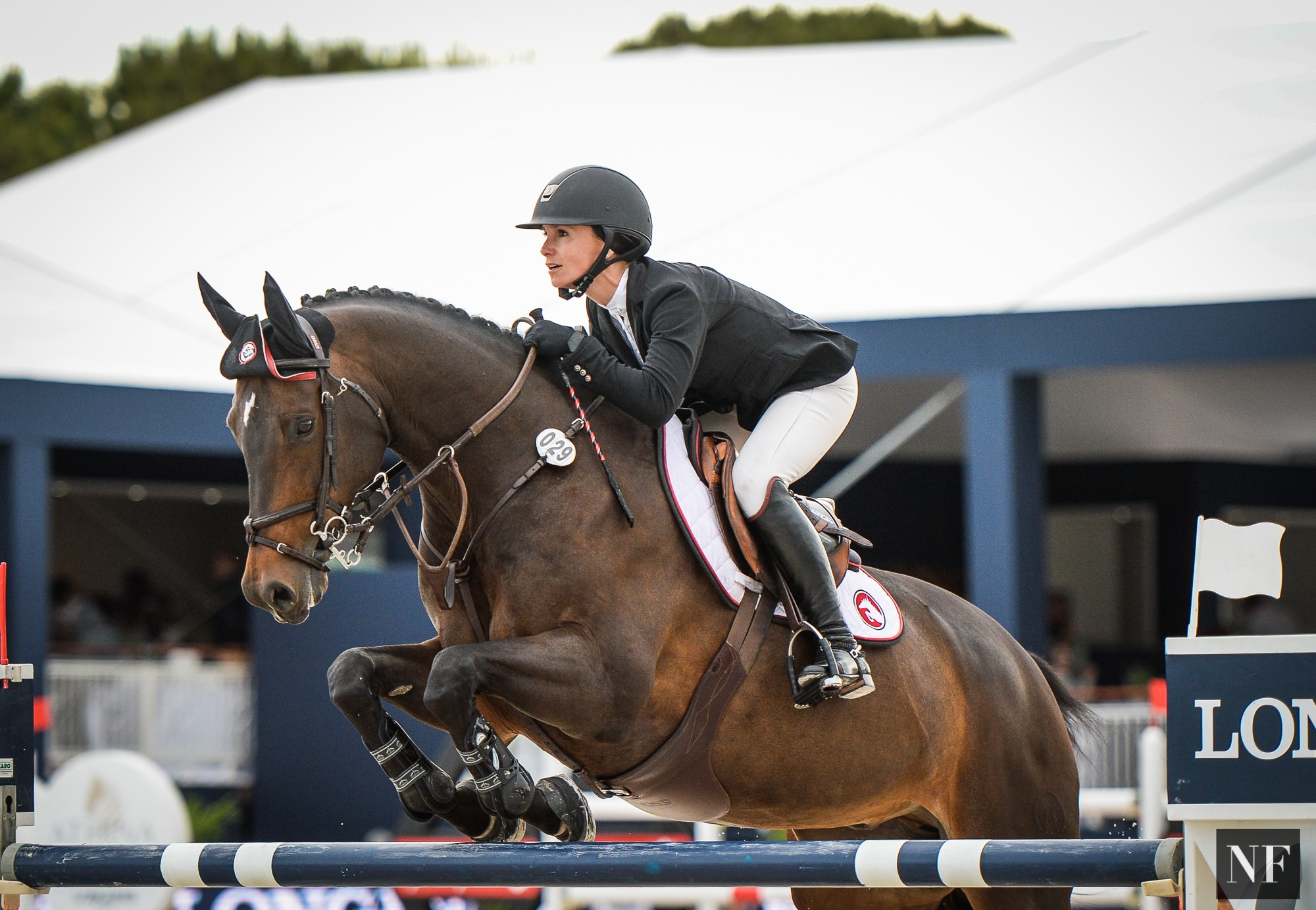 Georgina Bloomberg rides Caleno 3 at the Longines Athina Onassis Horse Show in St. Tropez, France, June 2016.